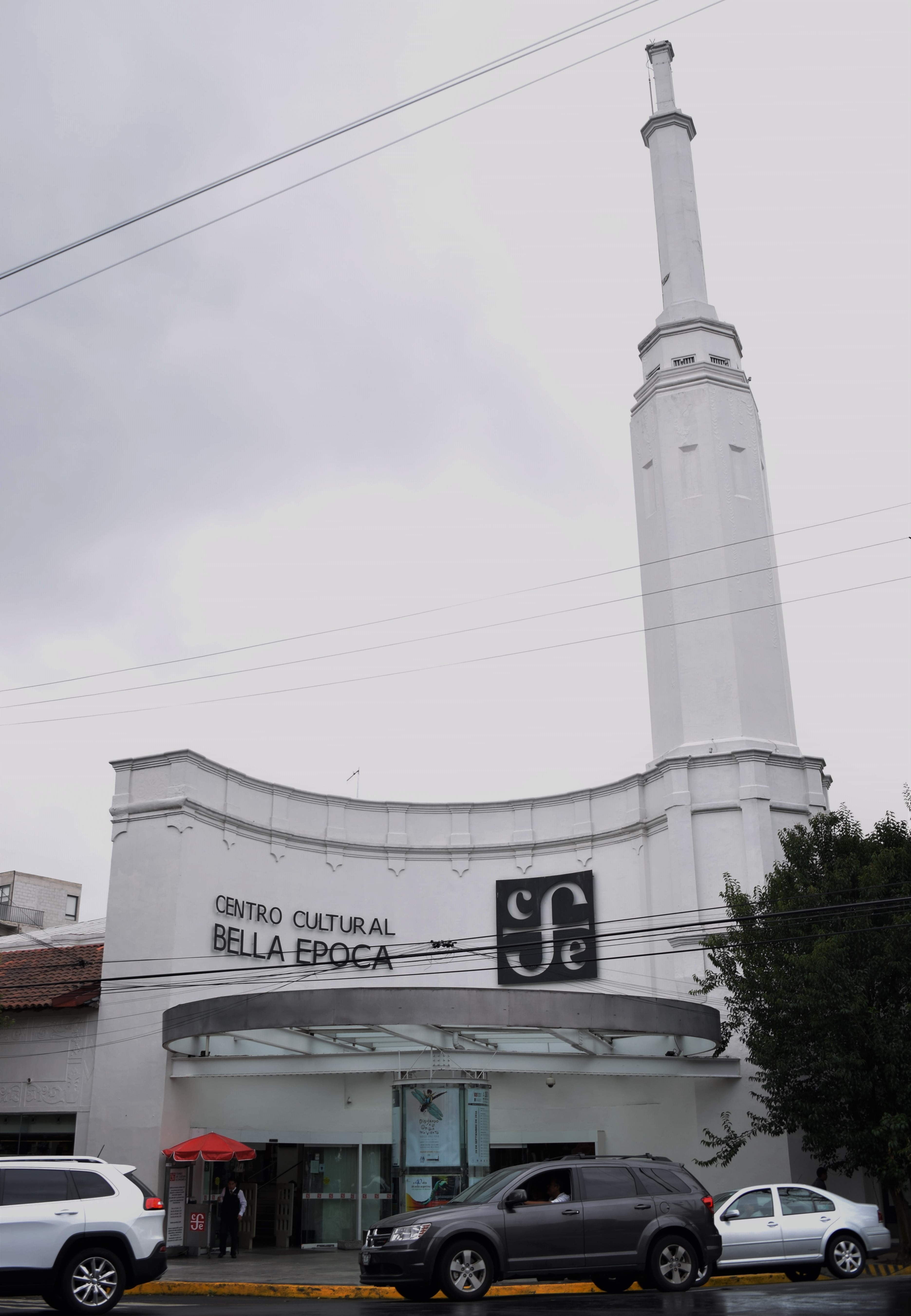 Facade of Centro Cultural Bella Época (Beautiful Time Cultural Center), located at Colonia Condesa, Mexico City.